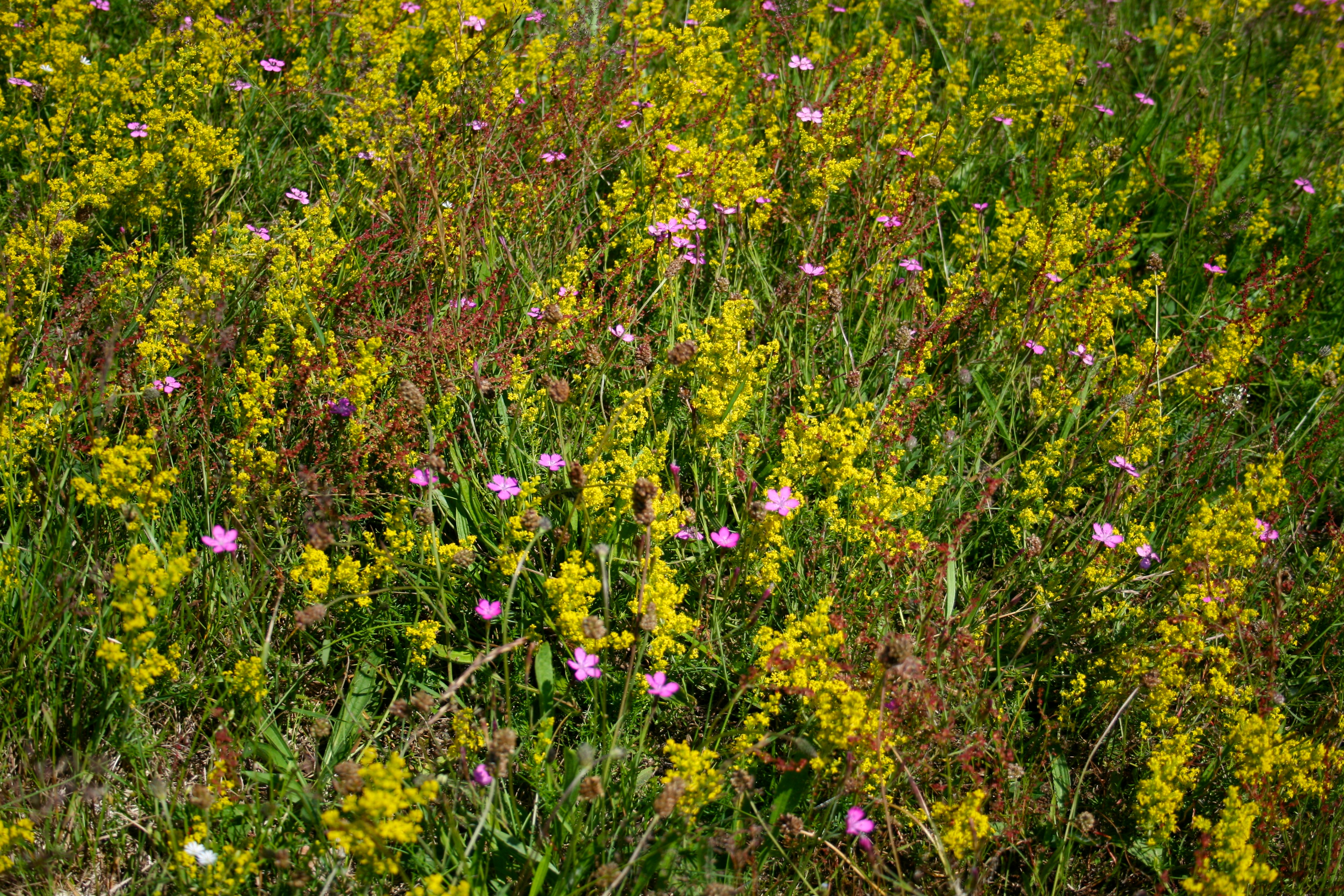 Category:Galium verum and Dianthus deltoides close to the Naturum in Stenshuvud national park